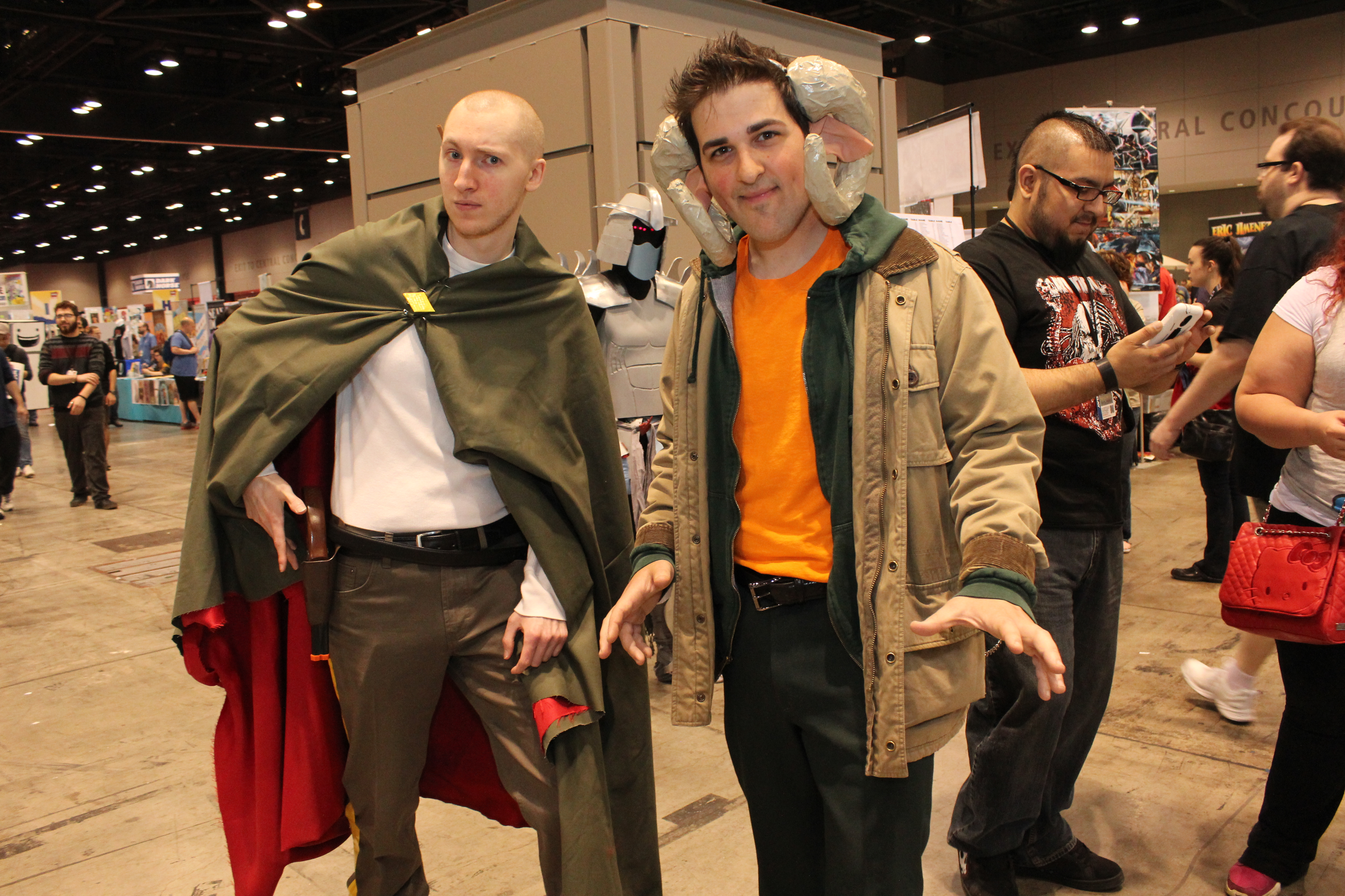 Cosplay at the 2013 Chicago Comic & Entertainment Expo (C2E2).